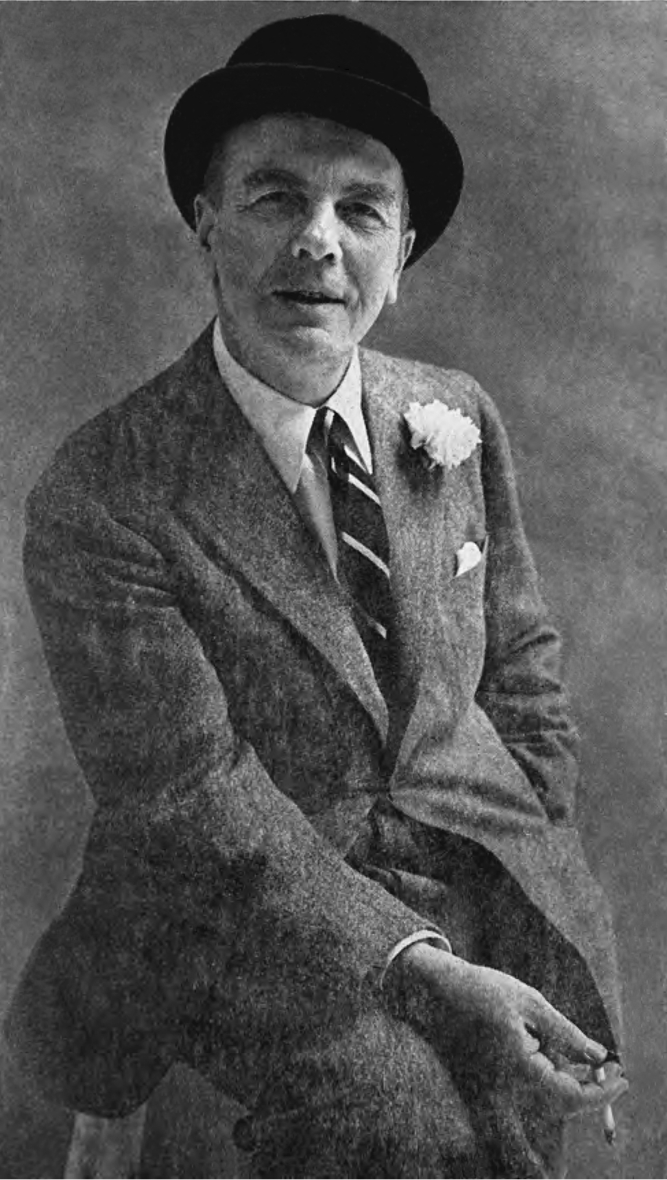 Hungarian-American writer Iles Brody (1899-1953)